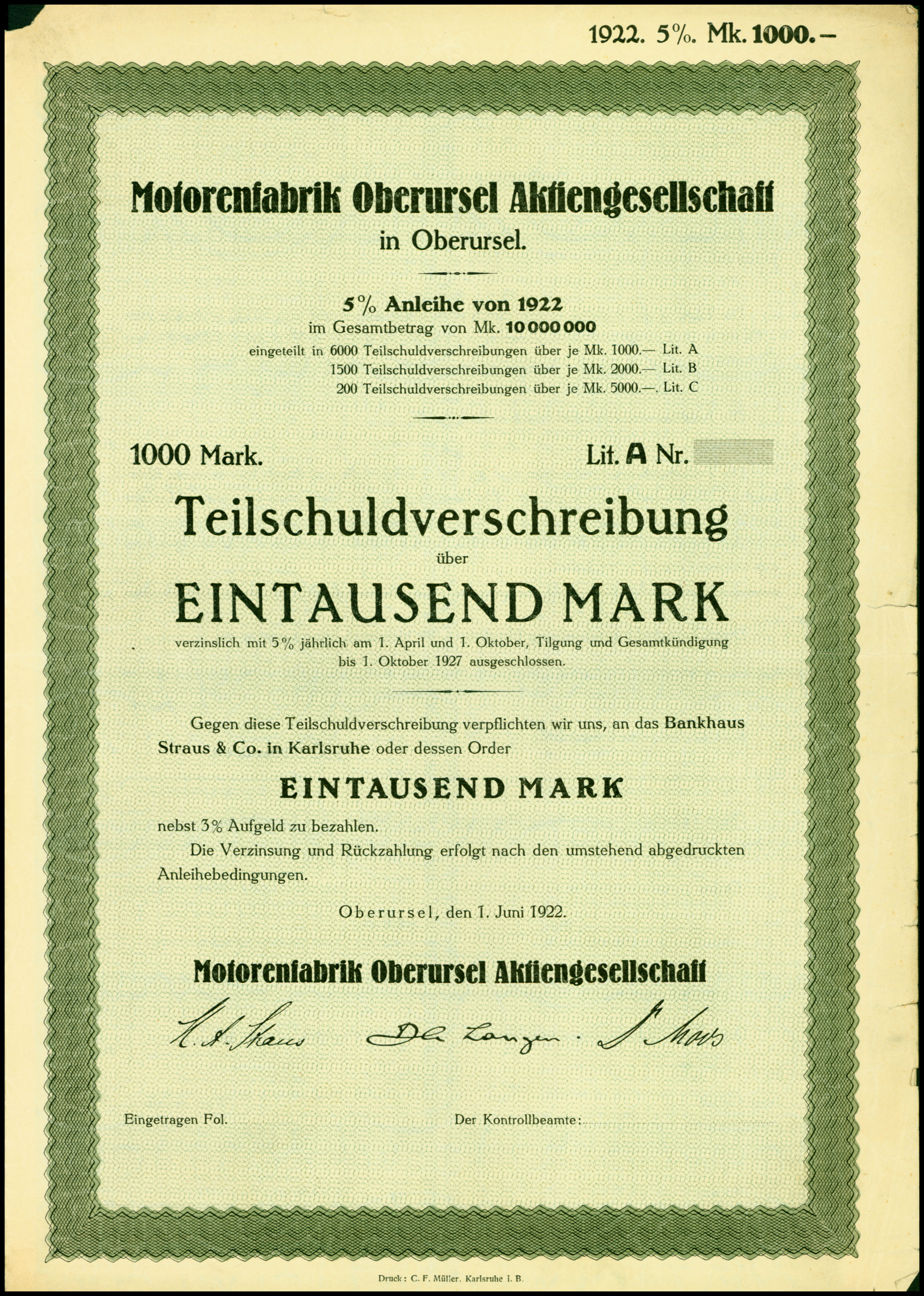 Bond of the Motorenfabrik Oberusel AG, unissued